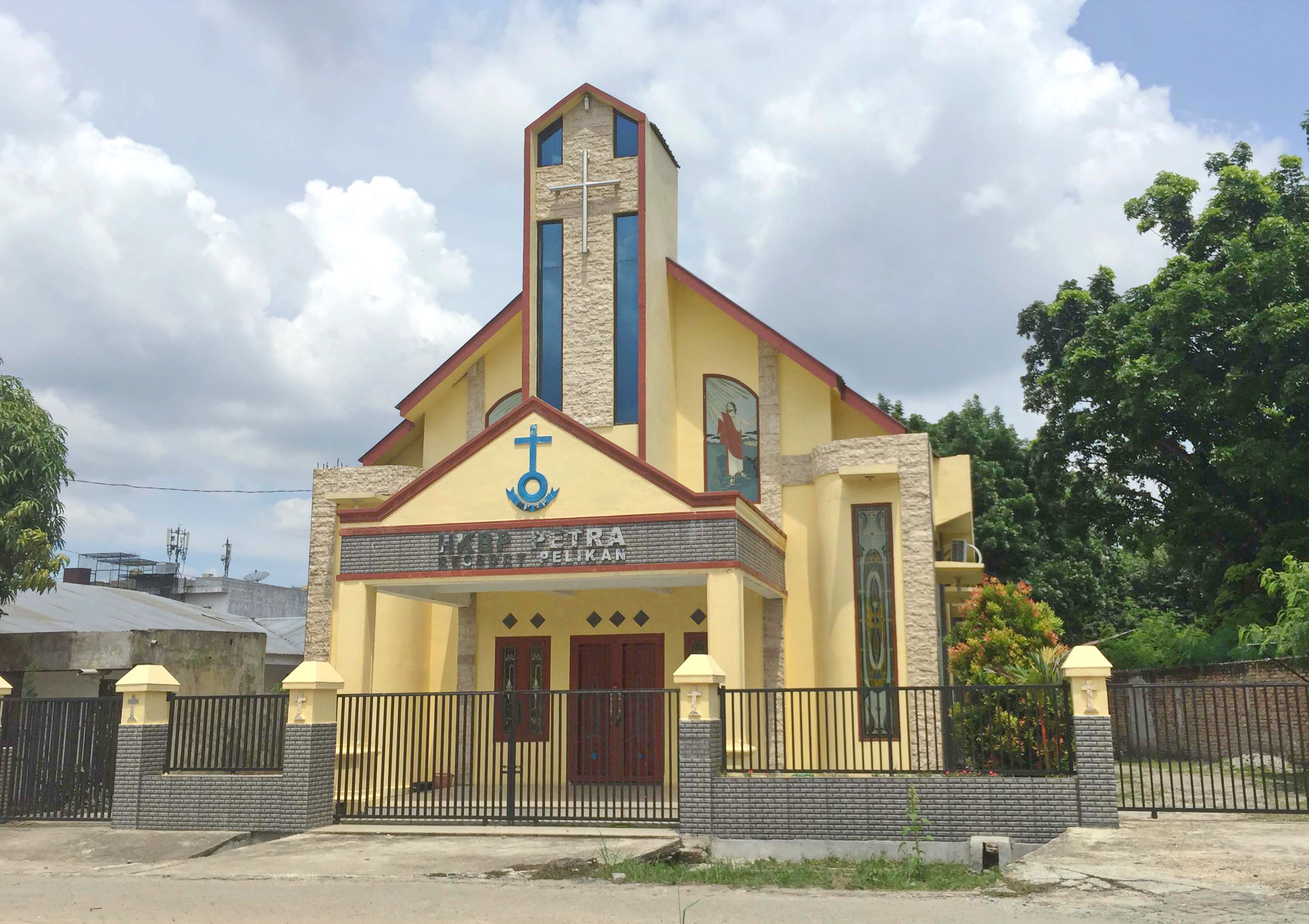 HKBP Petra, Res. Pelikan Church in Tegal Sari Mandala II, Medan Denai, Medan